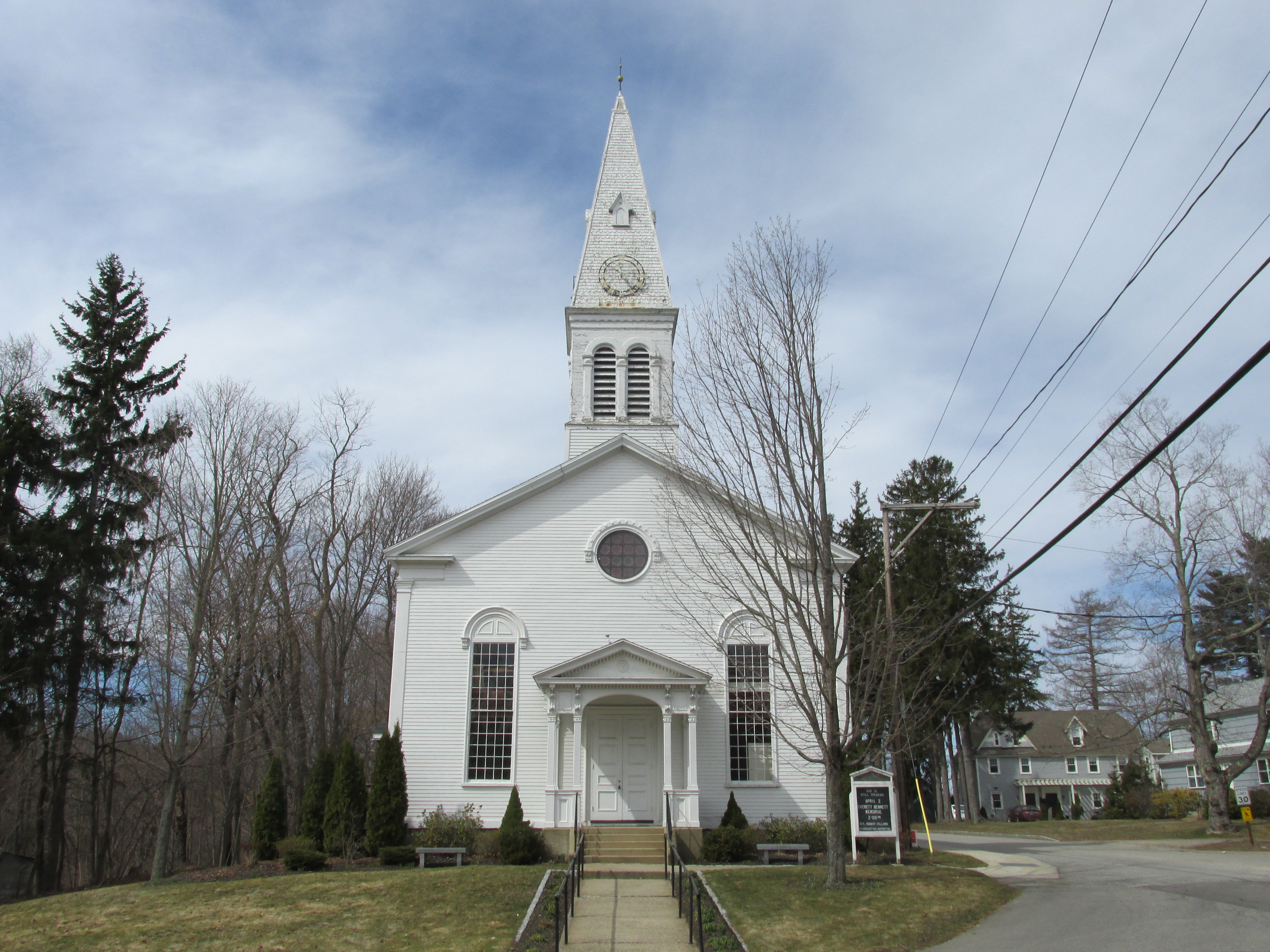 Community Congregational Church, Greenland New Hampshire - 2013